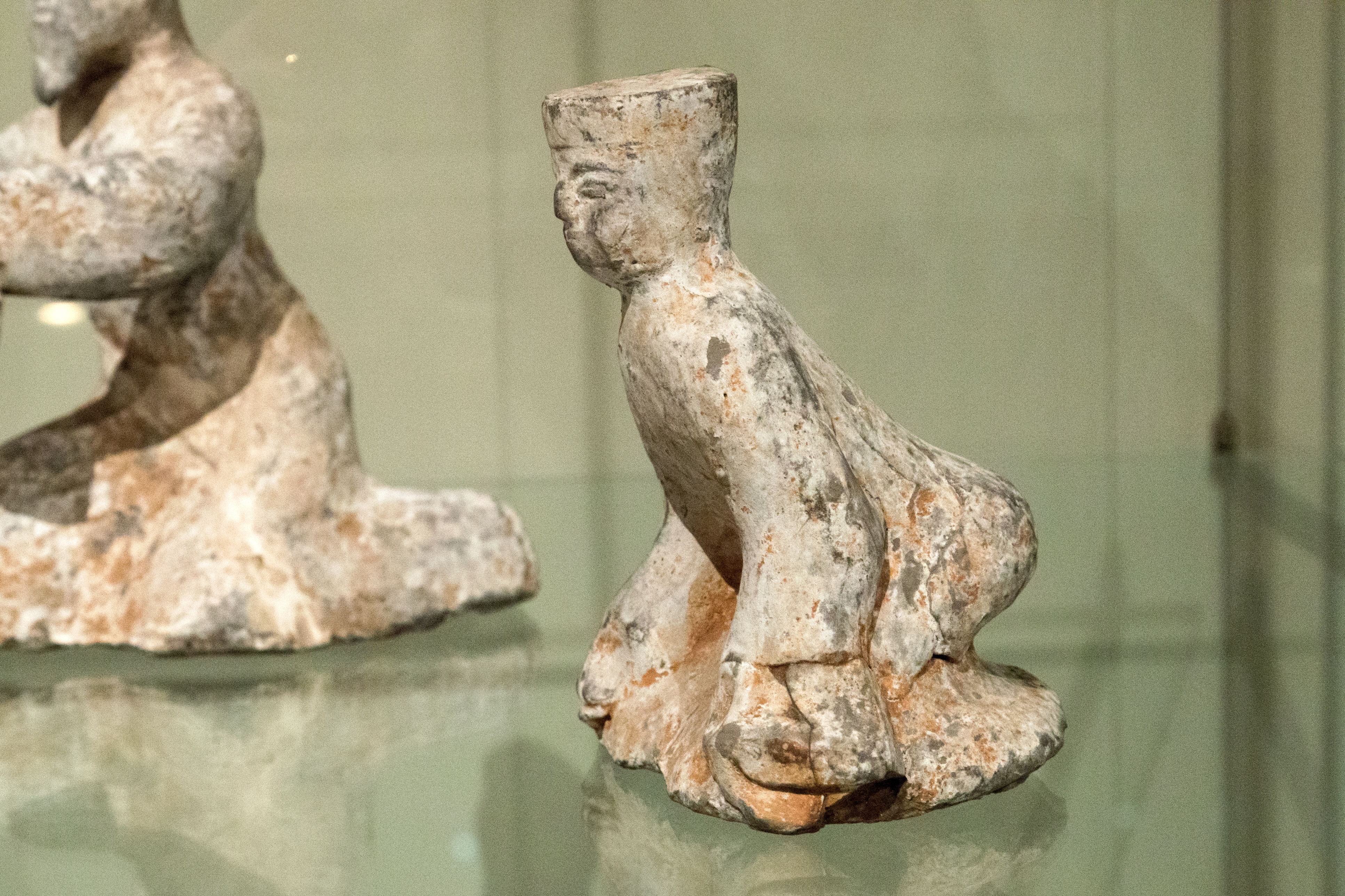 Mourning official. China, Eastern Han dynasty, 1st - 2nd century. Fired and polychromed clay. NG Prague, Kinský Palace, NG Vp 1092-1097.